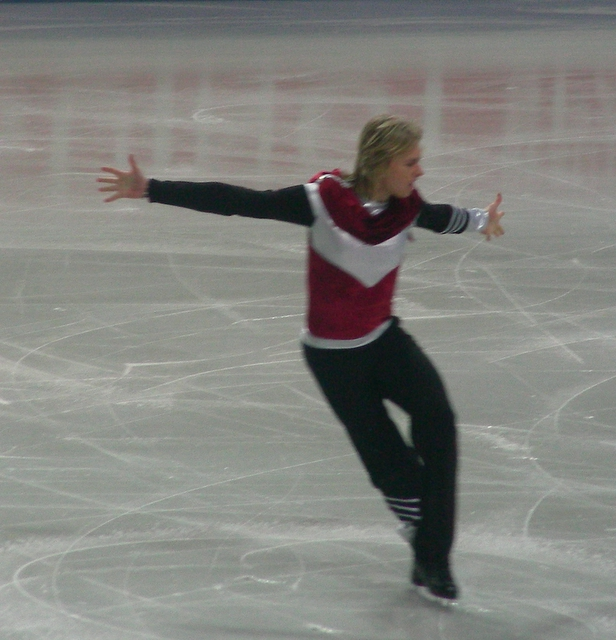 Karel Zelenka on the 2007 European Figure Skating Championships in Warsaw - free skate